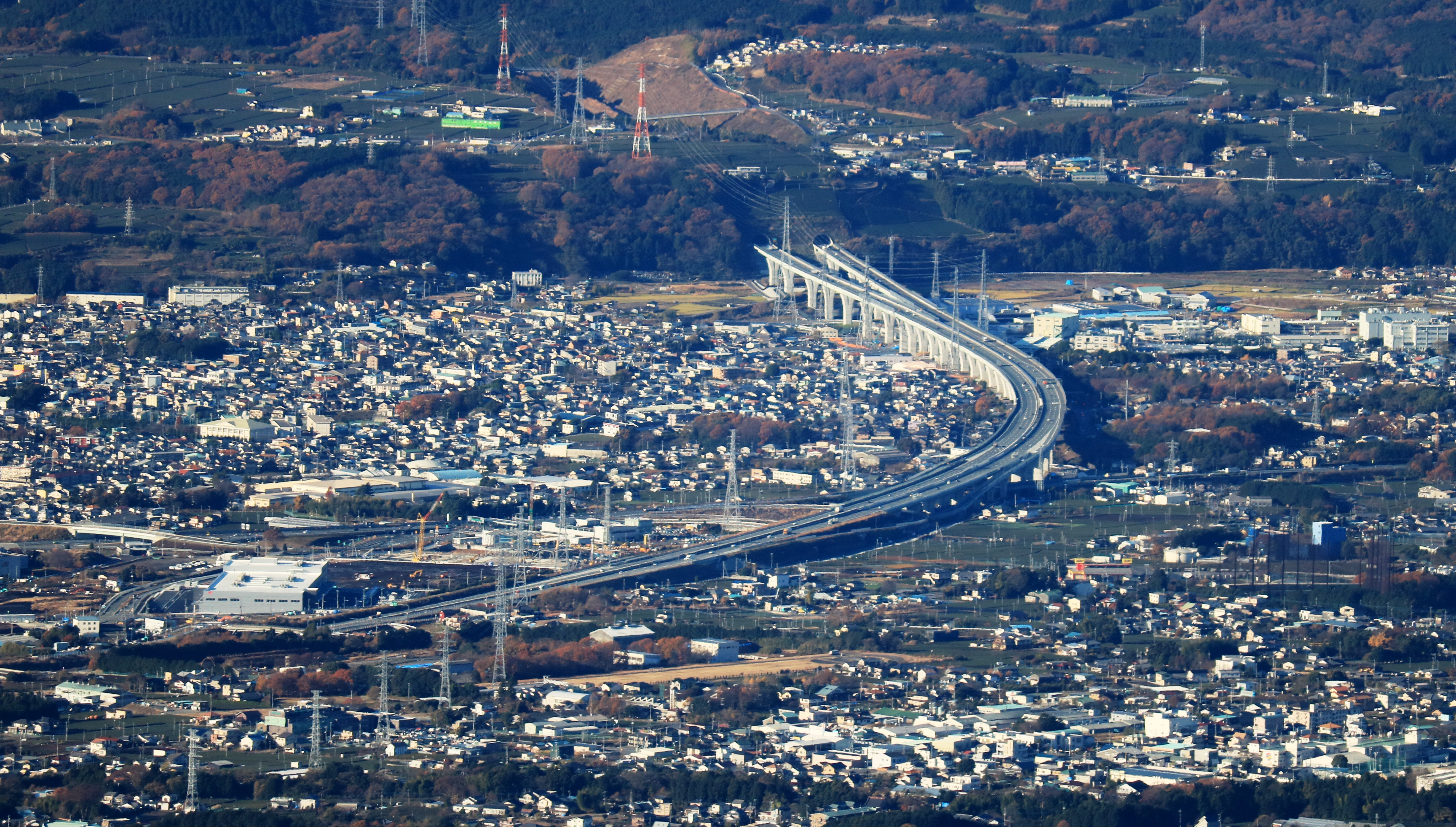 Shin-Fuji Interchange of Shin-Tomei Expressway seen from Ashitaka Mountains in Fuji, Shizoka prefecture, Japan.